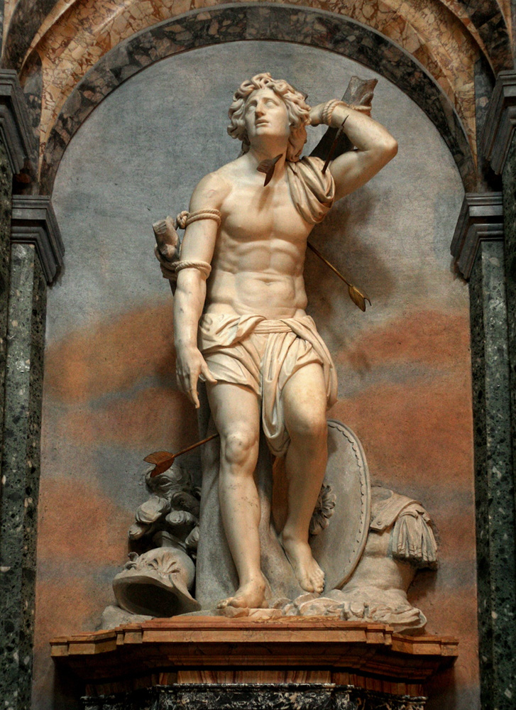 Sculpture of Saint Sebastian by Paolo Campi created circa 1703.